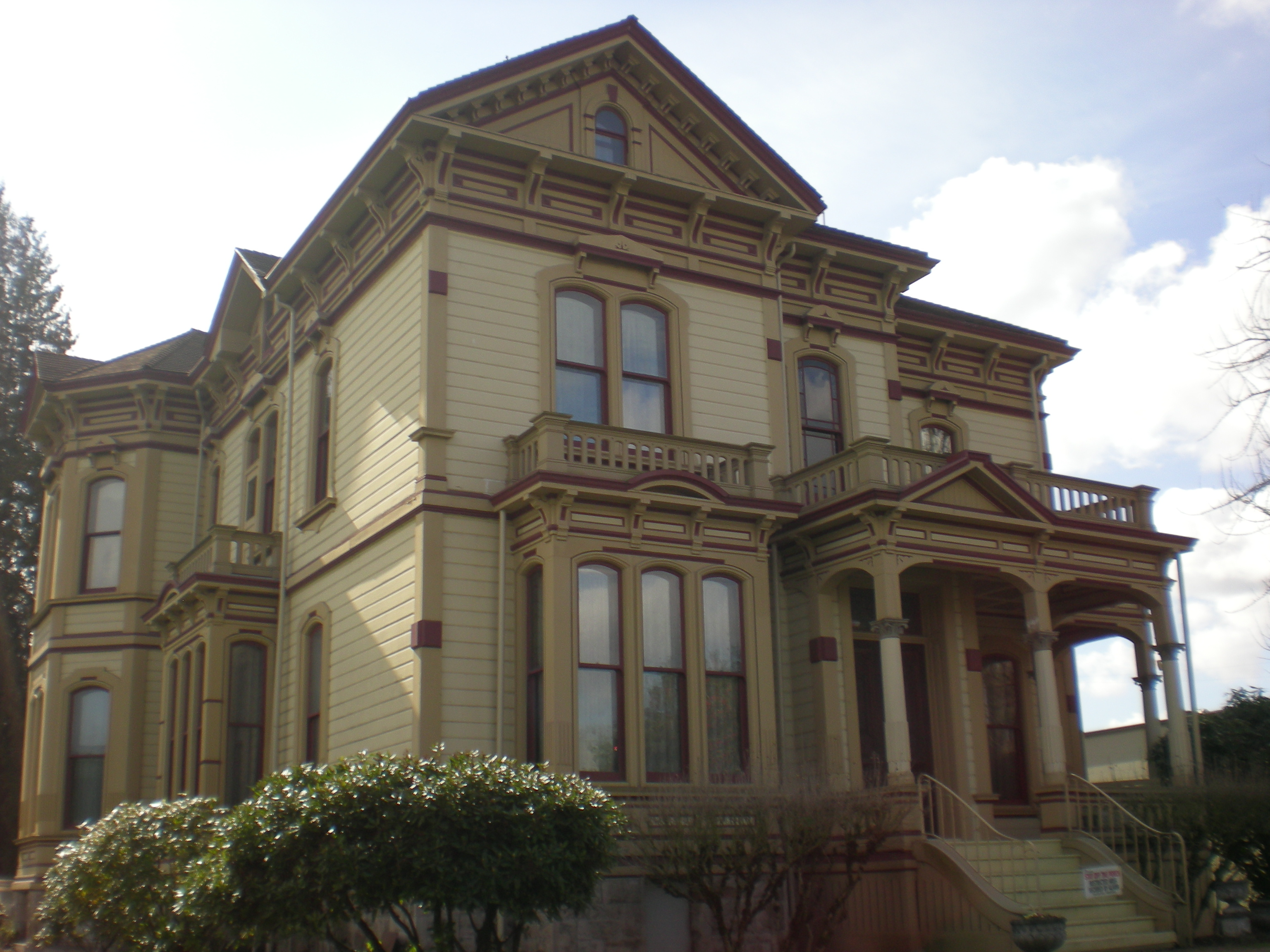 The Ezra Meeker Mansion in Puyallup, Washington